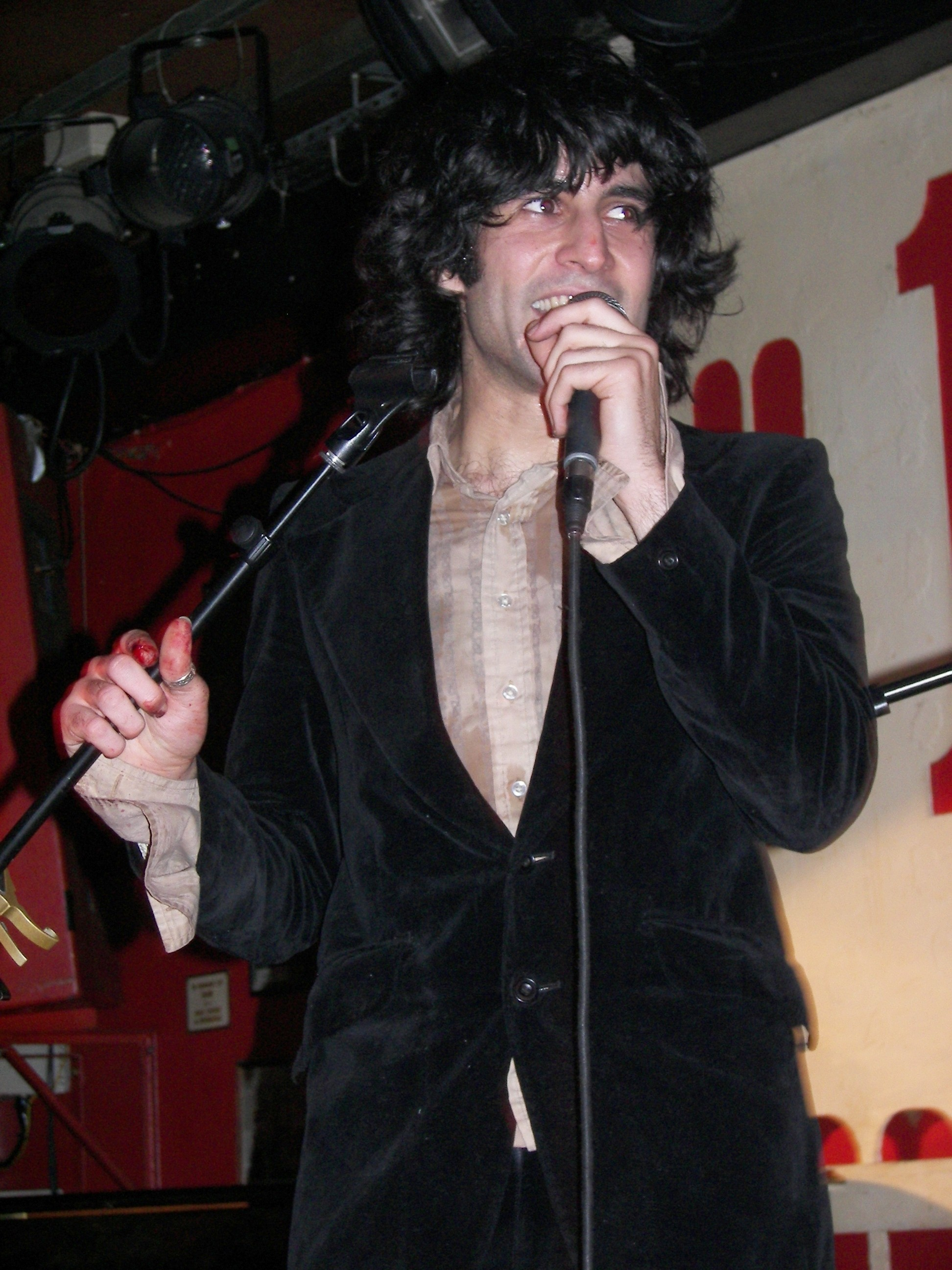 Nima of Hush the Many at the 100 Club 7 Nov 2007